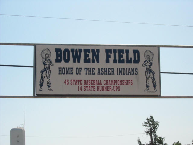 Bowen Field Sign. Taken by Brad Holt.